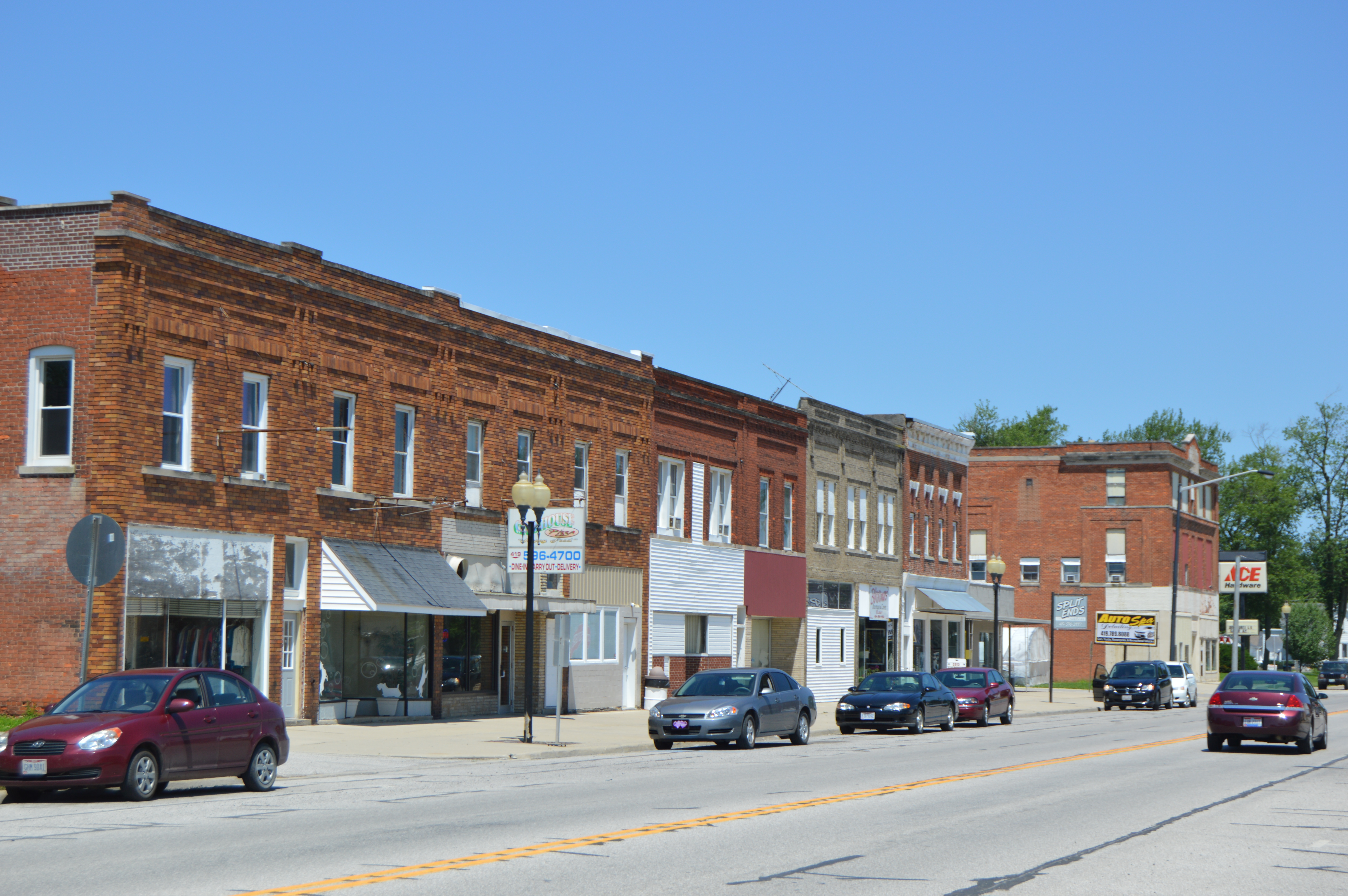 Commercial buildings on the western side of Main Street (State Route 634) in Continental, Ohio, United States; the Rice Street intersection is visible in the distance.